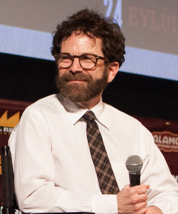 Anomalisa Q&A with Charlie Kaufman Fantastic Fest 2015-0257.jpg